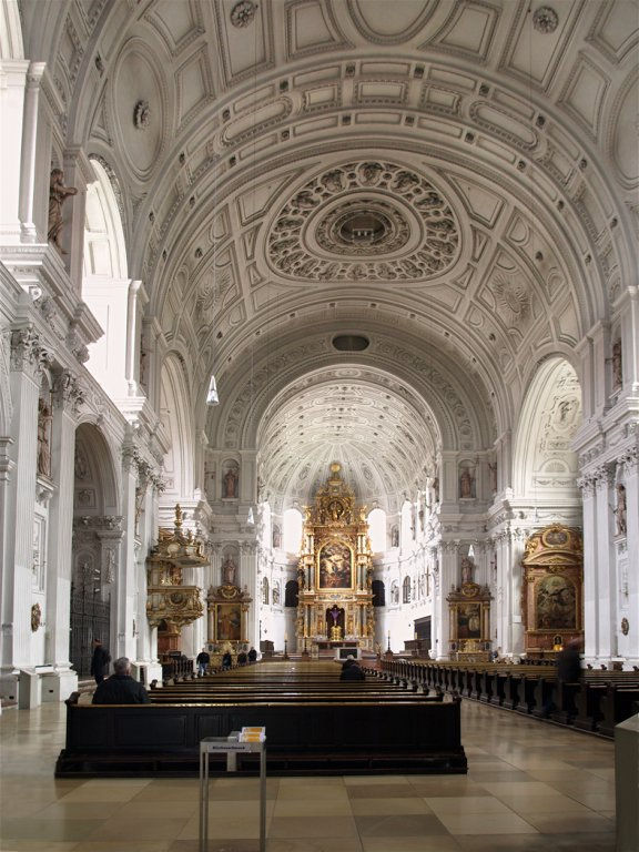 Munich (Germany),Interior of the church "St. Michaelis", photo 2008